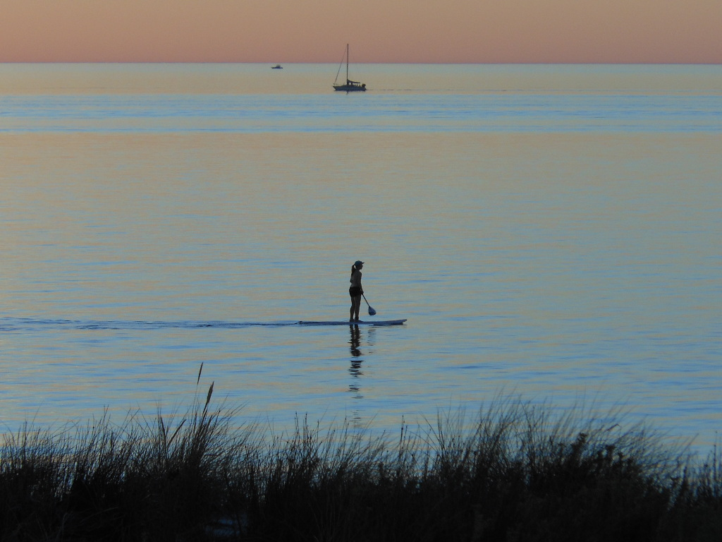 Pastel shades at dusk in Henley Beach, South Australia, a Western beachside suburb of Adelaide.